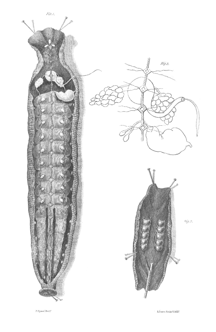 Hirudo medicinalis anatomy. Figure 1 represents the internal structure of the leech, slightly magnified. At superior part we notice the piercers, improperly called the teeth, and the male and female organs of generation; at the inferior parts, the two last long cells or stomachs, and the intestine. The abdominal blood-vessel is seen taking a direction from the mouth to the anus, forming several diamond-shaped expansions in the course. We find on each side of the vessel, the cells or stomachs ranged in regular order. To the surface of each is attached a small oval-shaped body, forming a connection, the one with the other by means of a tortuous tube. Figure 2 represents, under highly magnified form, the body of the male generative organ, with the penis hanging from its sheath. The uterus with the ovaria and the testes. Figure 3 represents a dried preparation, shewing a few of the cells distended with common shot, and a portion of the intestine in which a slip of wood has been inserted.